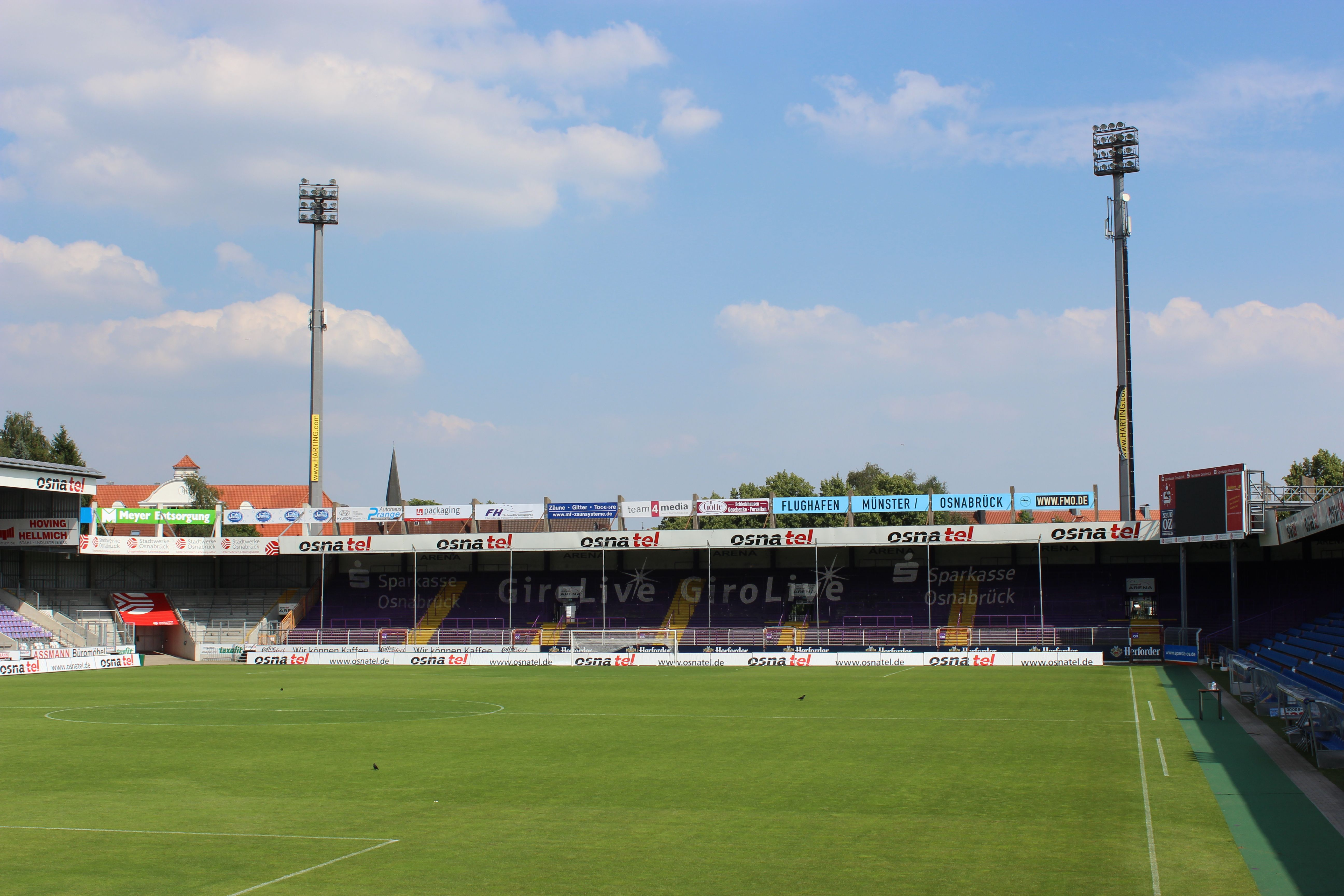 Osnabrück: osnatel Arena